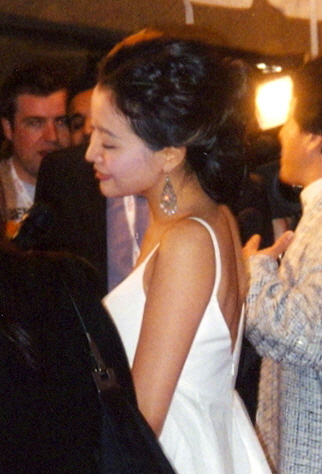 Kim Hee-Seon at the premiere of The Myth, Toronto Film Festival 2005 Definitely should have gotten more pics of her